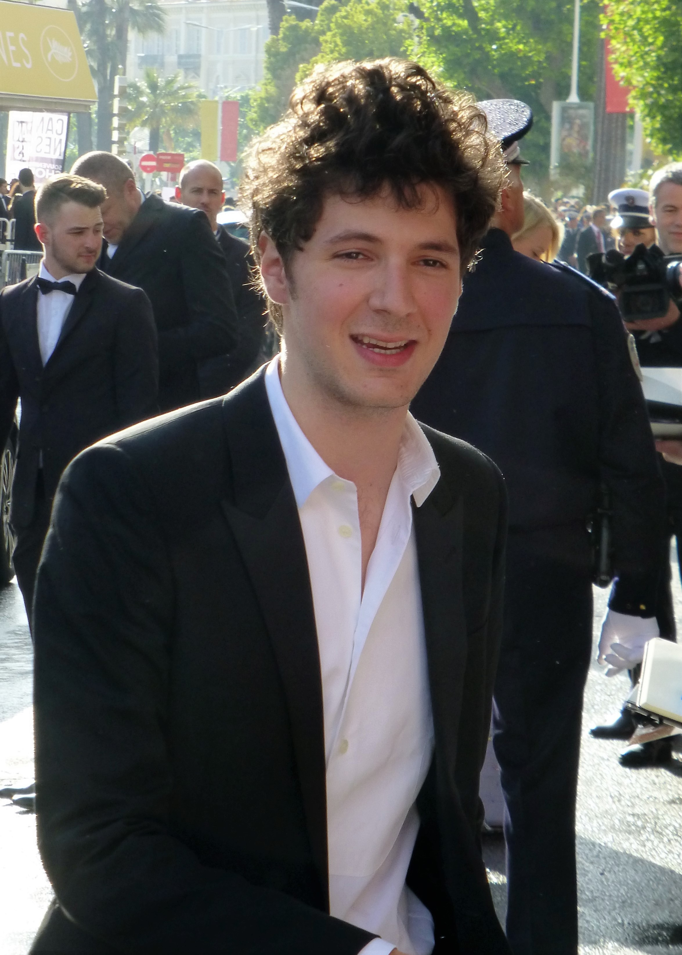 Vincent Lacsote at the world premiere of Cafe Society, 2016 Cannes Film Festival